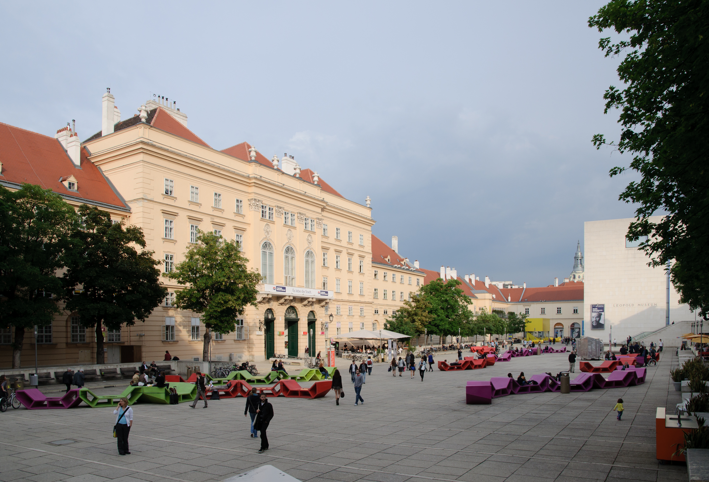 MuseumsQuartier courtyard in Vienna, Austria.